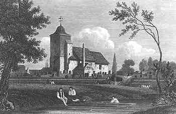 An engraving of St Pancras Churchyard in 1815